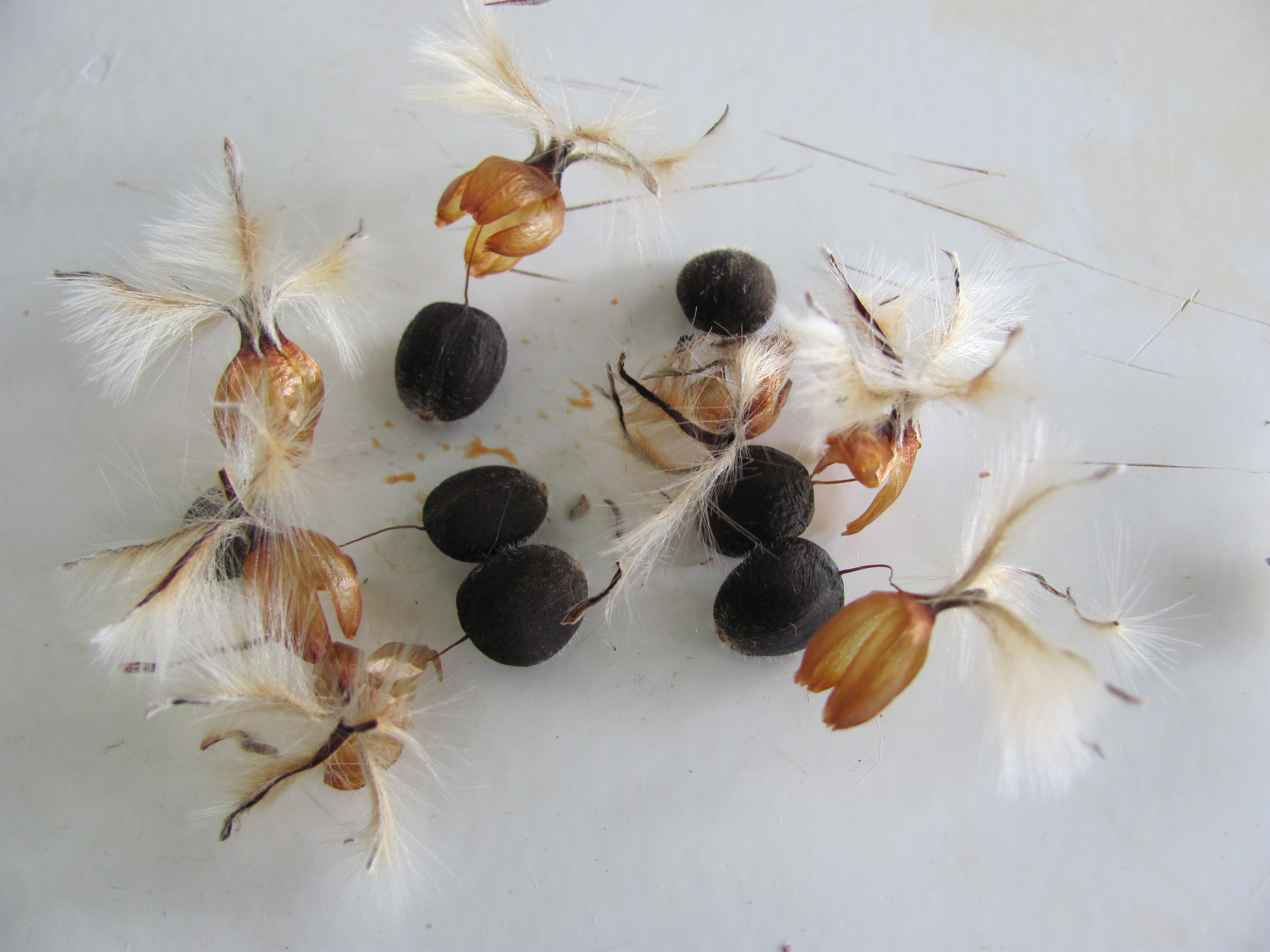 Seeds of the Leucadendron argenteum tree. Cape Town.